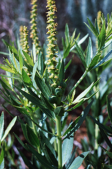 Flowering plant of Stillingia sylvatica